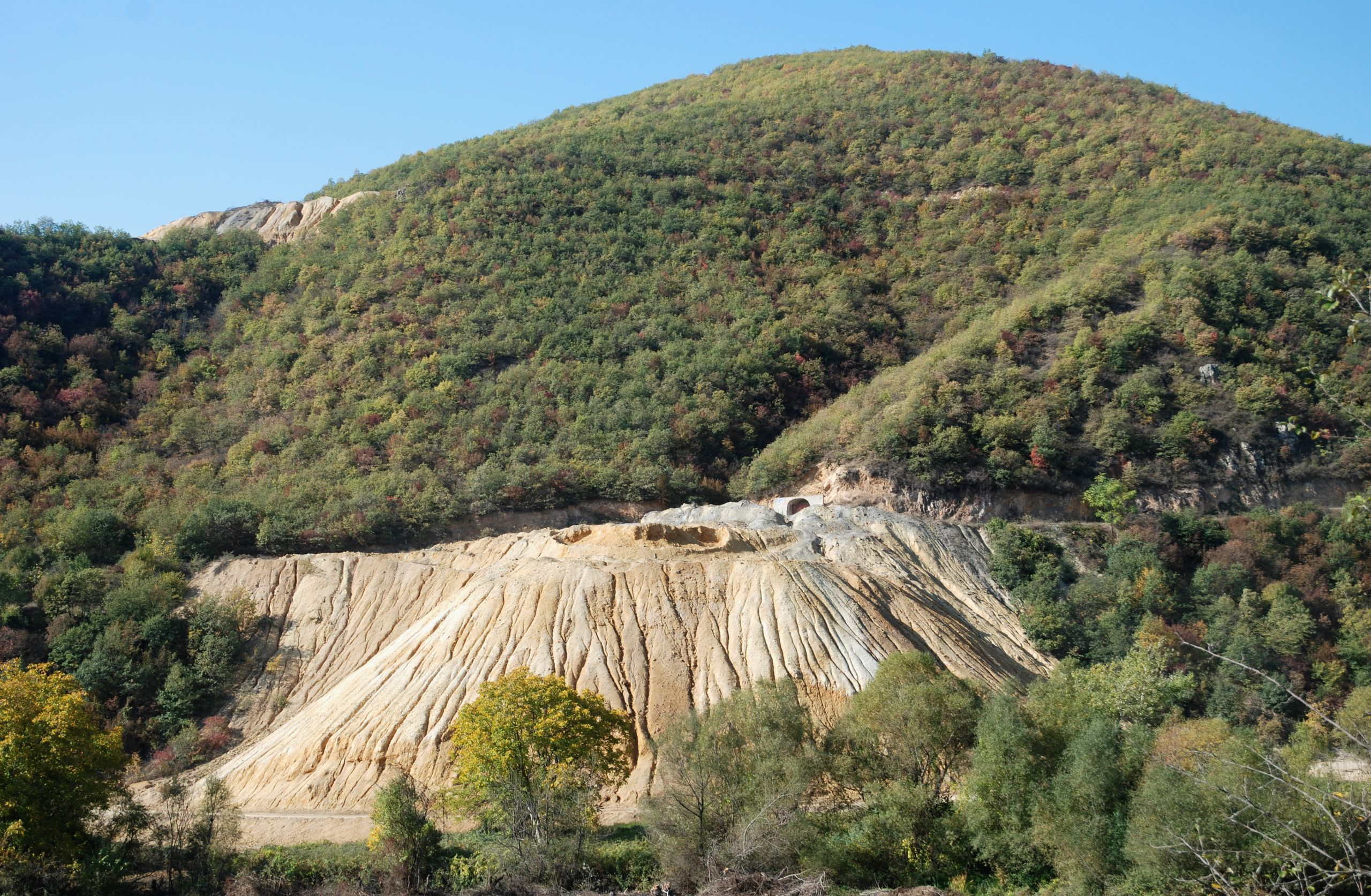 Adit north of Kapan, Dundee Precious Metals